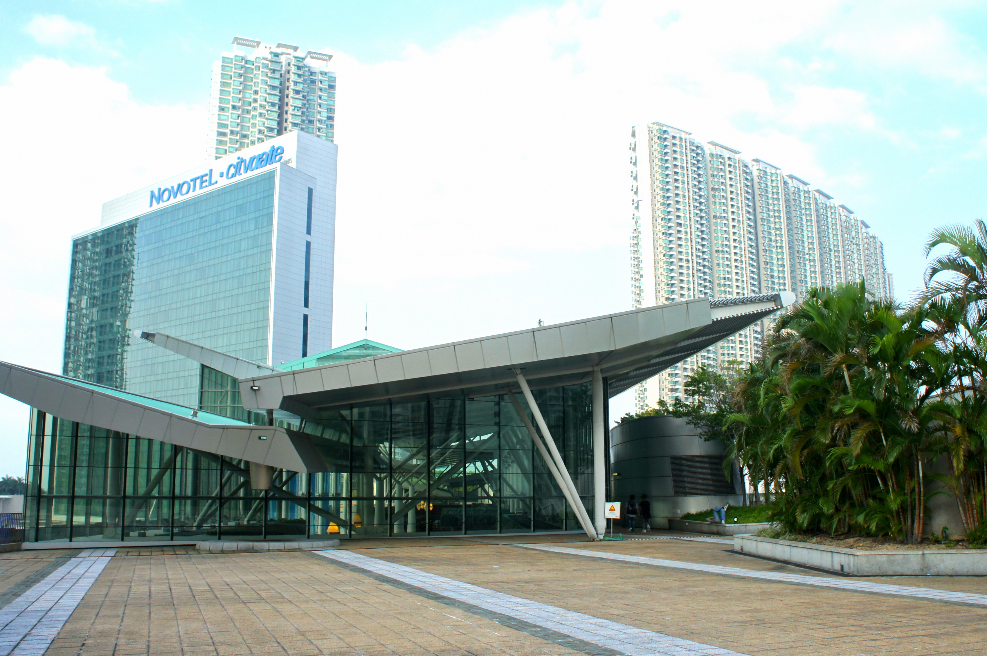 Rooftop garden of the Citygate Outlets, Tung Chung, New Territories, Hong Kong.